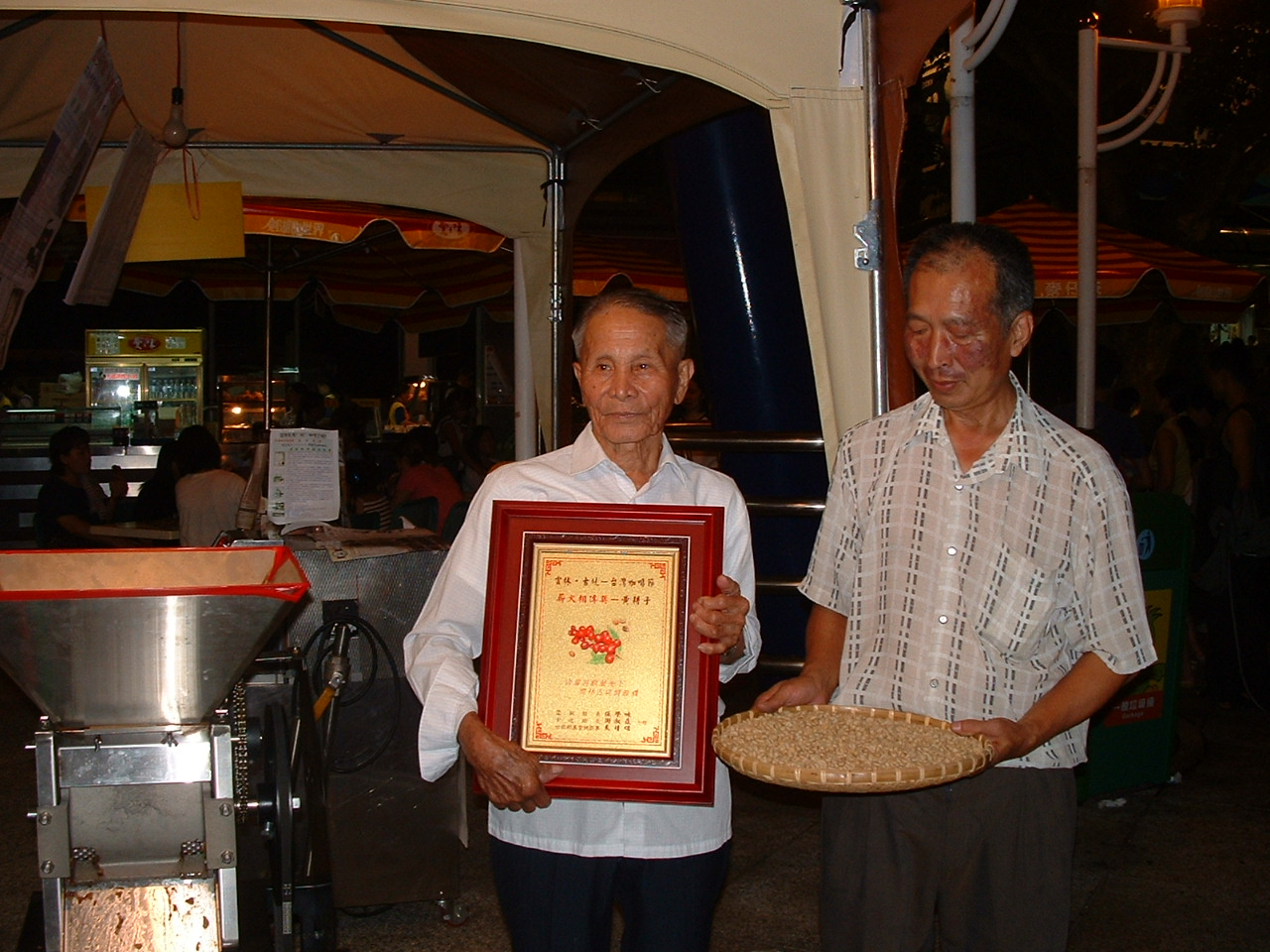 2003 the Gukeng Coffee Festival HUANG Geng sub-old man holding a certificate of merit